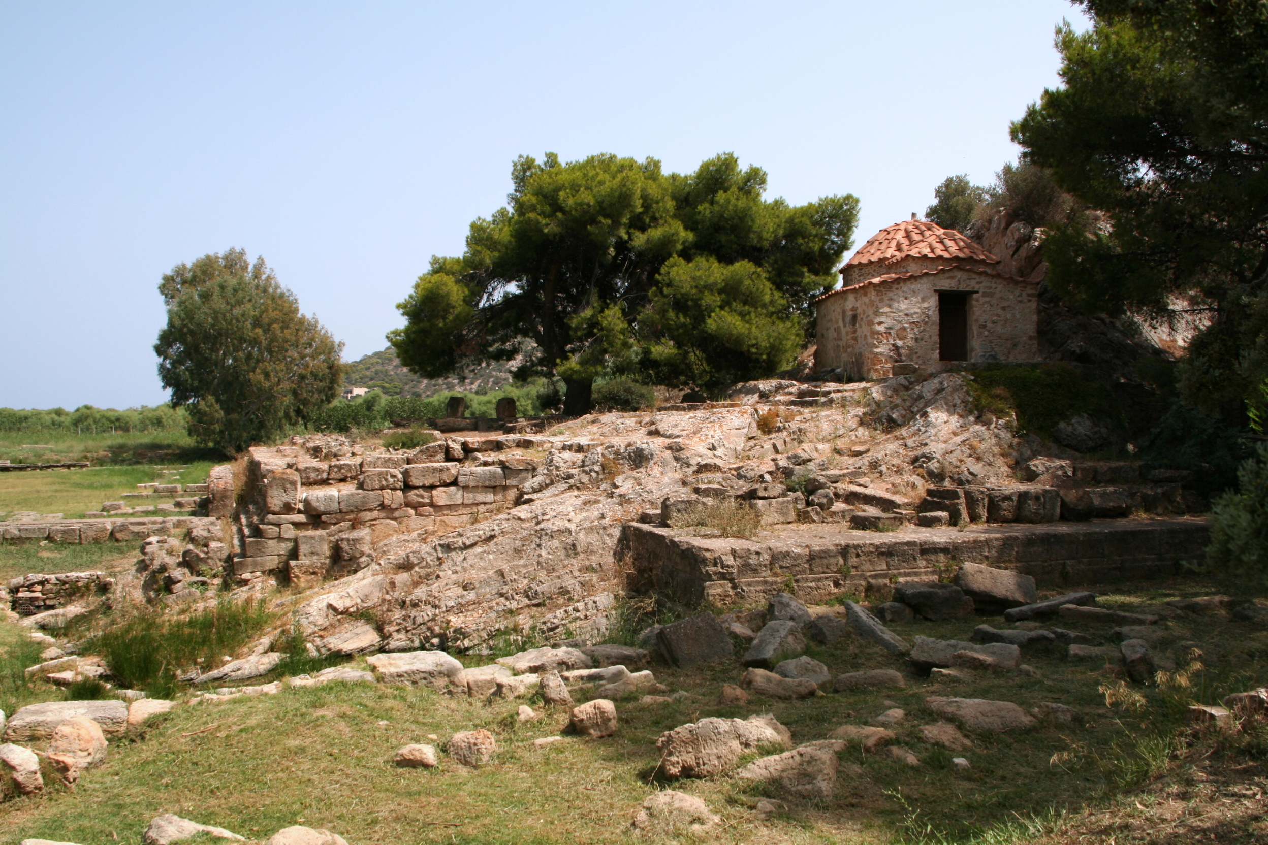 Platform of the Temple of Artemis and Church of Hagios Georgios, Brauron